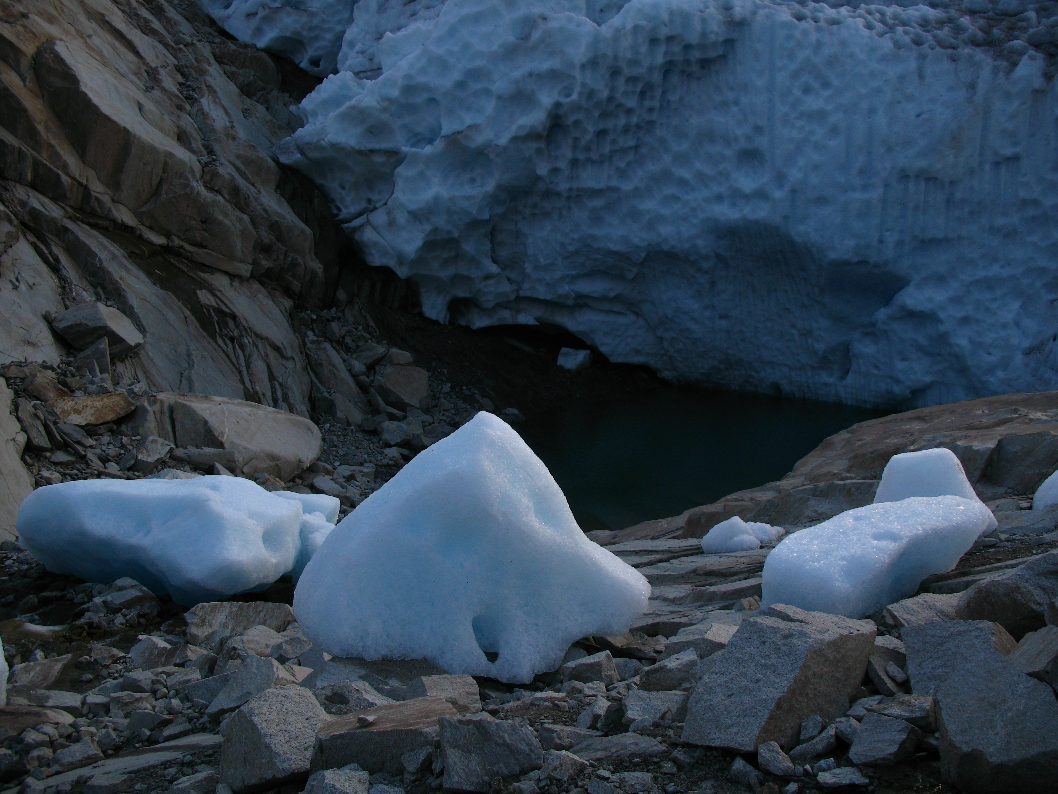 Aletsch Glacier, Fiescheralp, Switzerland